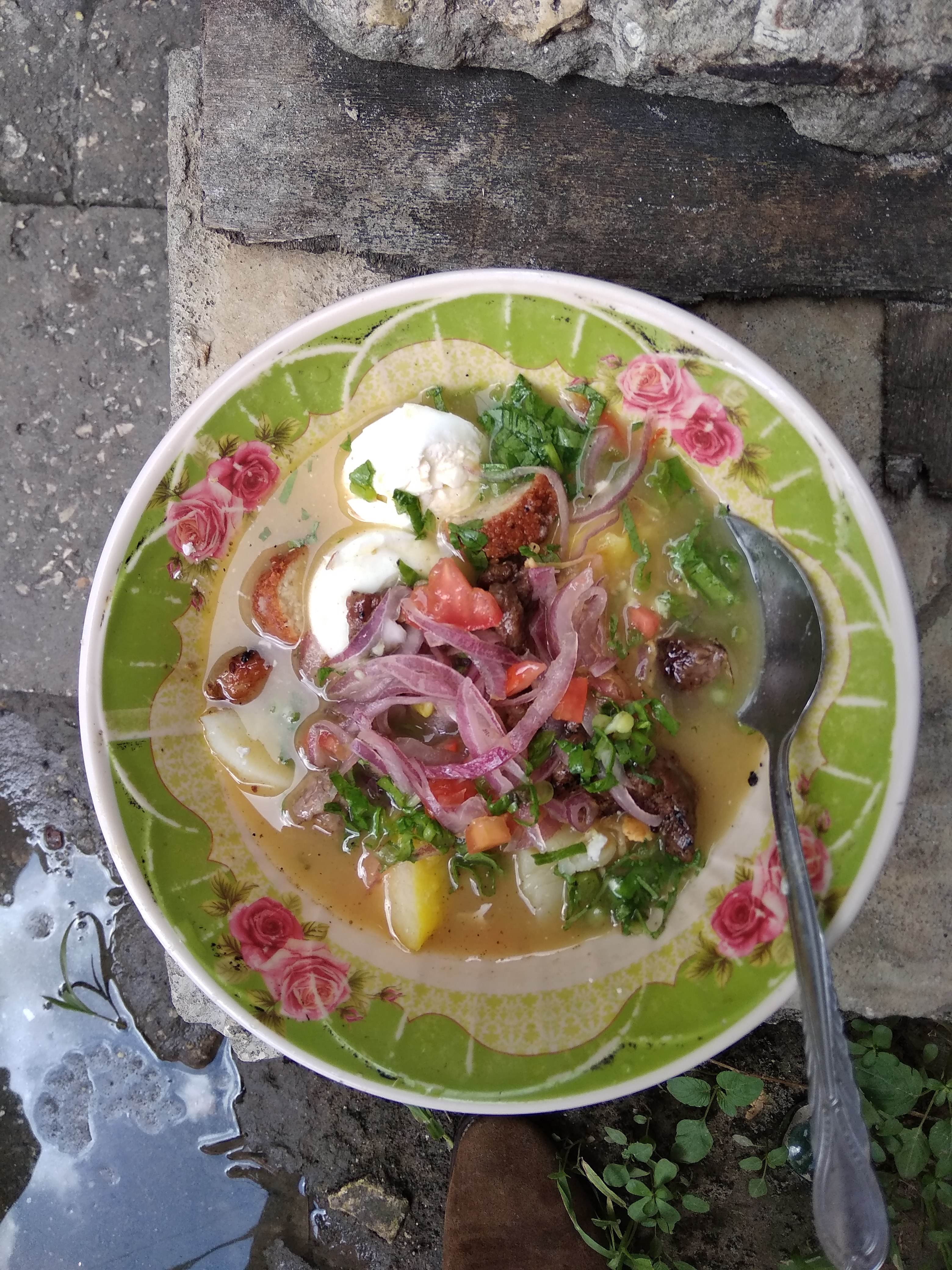 A plate of urojo in a street of Stone Town, Zanzaibar, Tanzania, November 2018.